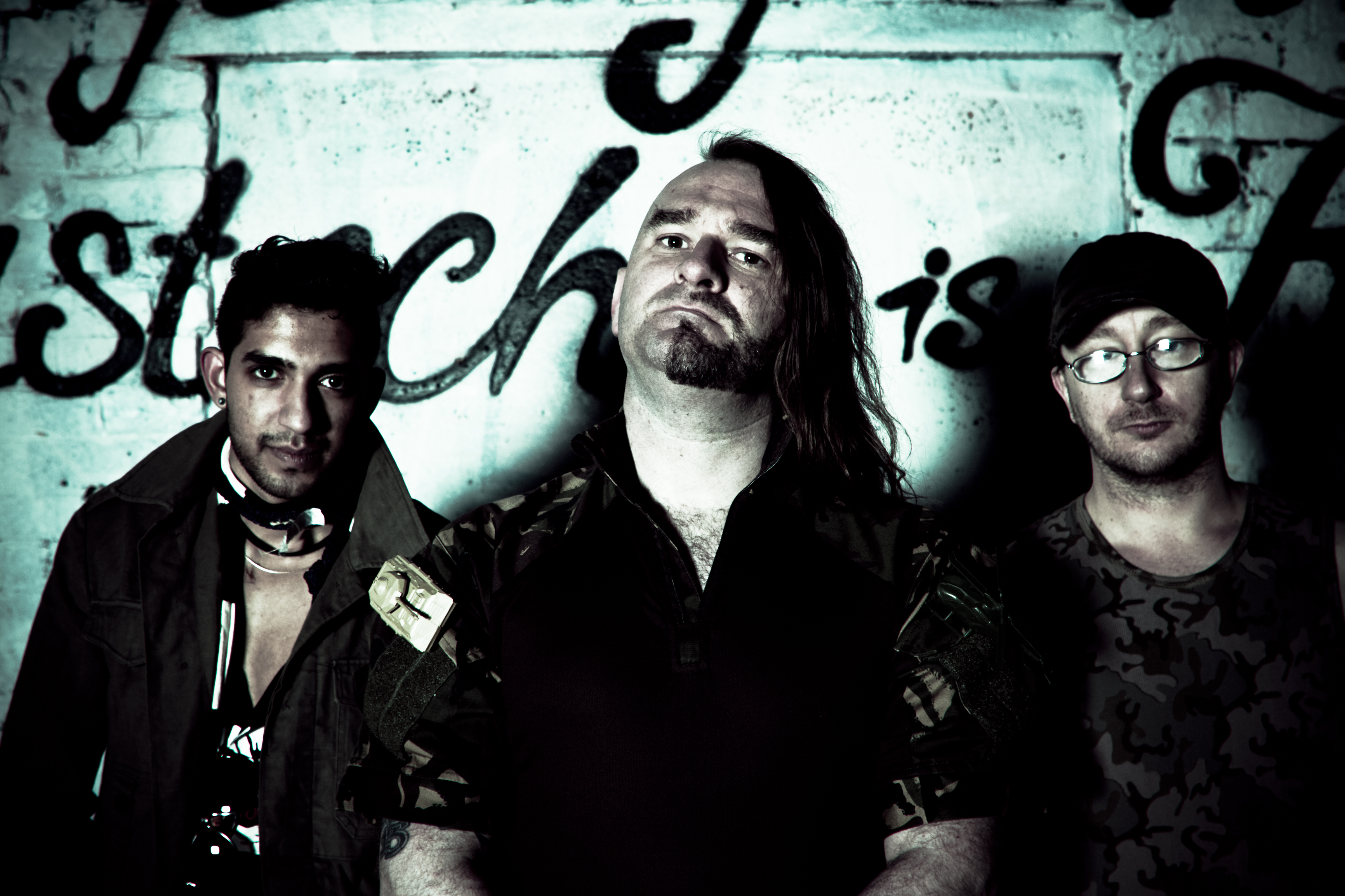 Photo of British band WEAK13 taken in Digbeth, Birmingham in 2012